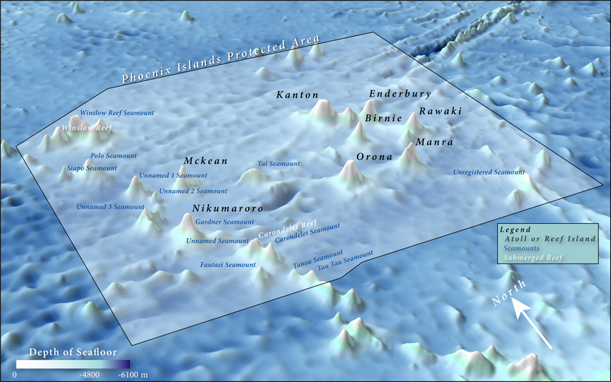 3D map of Phoenix Islands Protected Aread. Cartography by Kerry Lagueux, New England Aquarium. Scale Varies from this perspective. 8x Vertical Exaggeration.